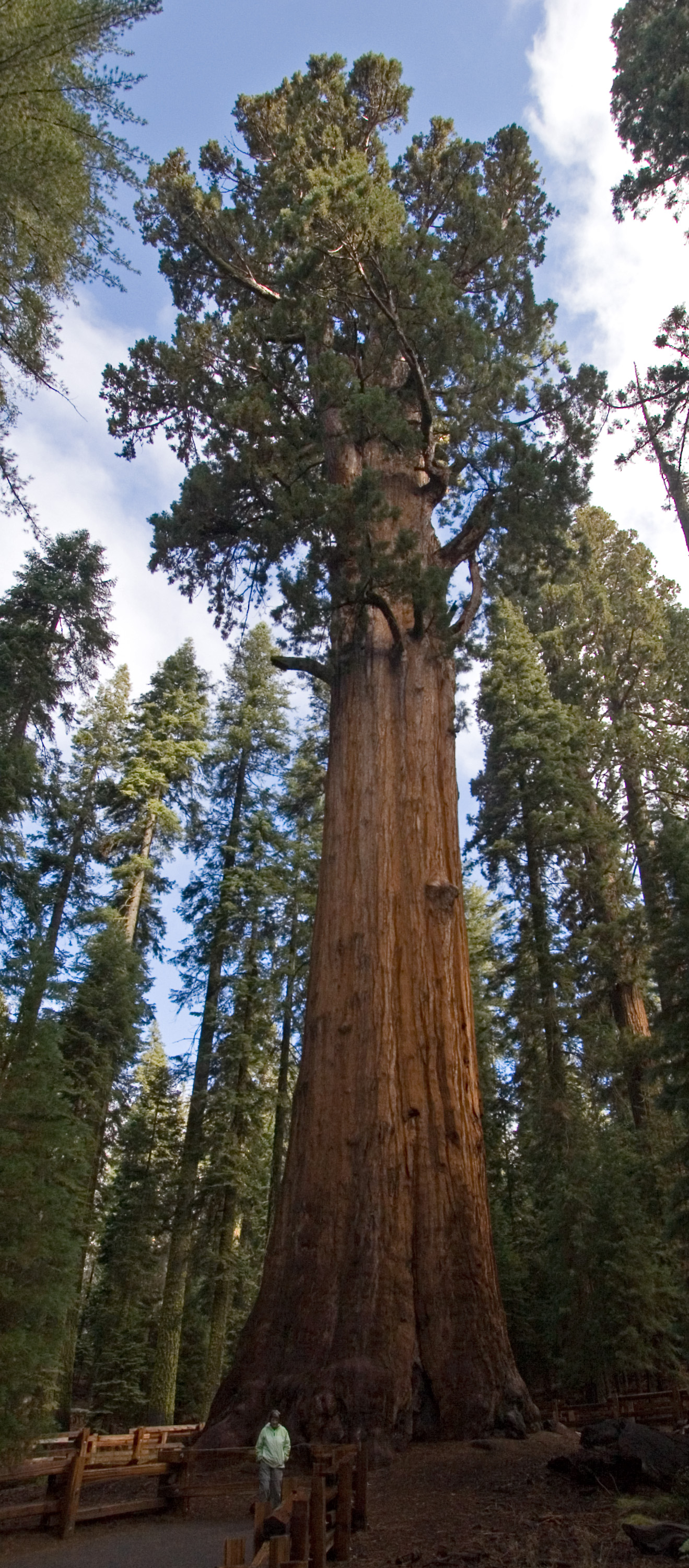 General Sherman tree is, by its volume of 1,487 m3 (52,513 cu ft), the largest known living single stem tree on Earth.